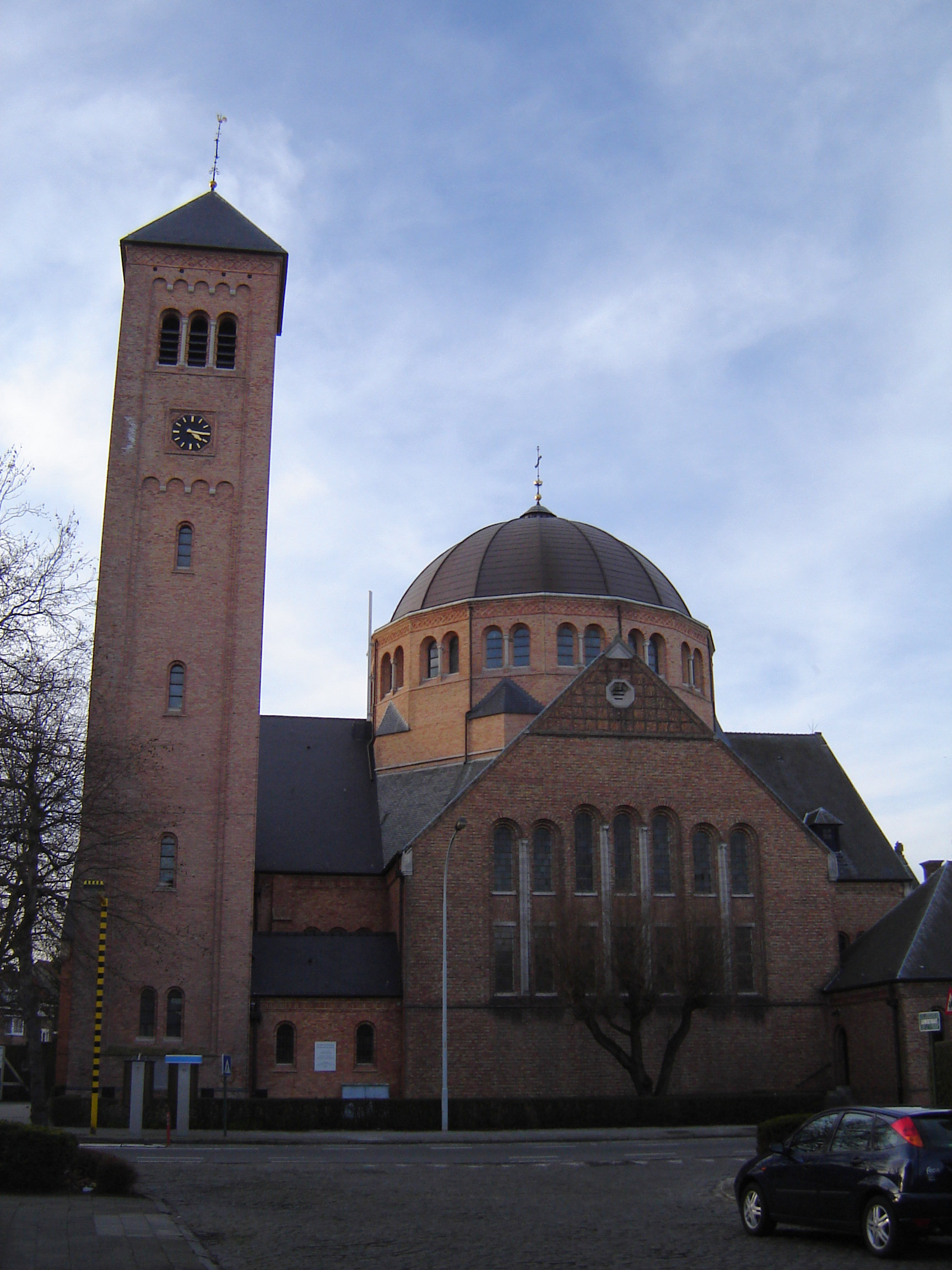 Church of Christ the King in Brugge. Brugge, West Flanders, Belgium.